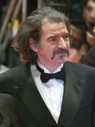 Miki Manojlović at the premiere of Irina Palm, at the 2007 Berlin International Film Festival.